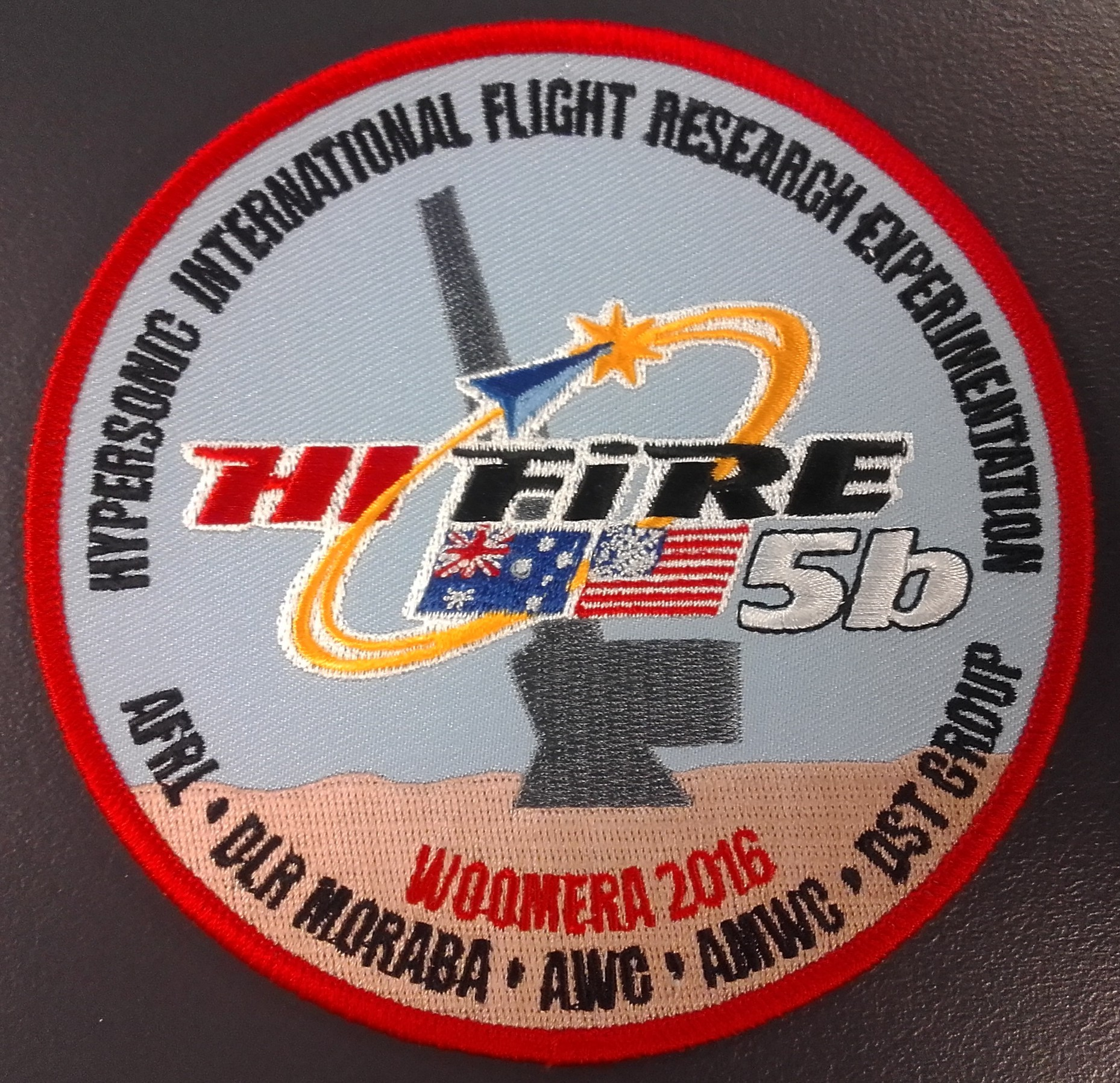 This is the badge of the HiFire 5b launch program. It was in an office area where I was visiting, and took this picture of it.